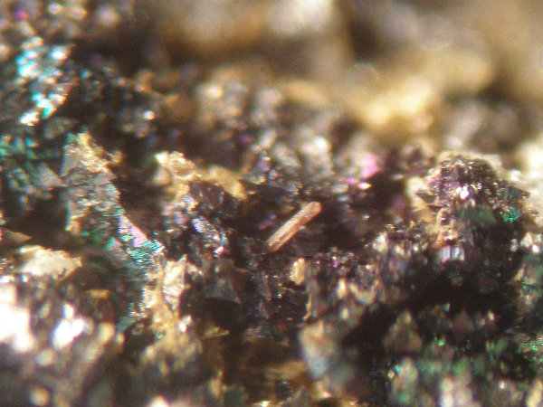 Pale brown prismatic crystals of Wakefieldite-(La) (Picture size: 3 mm) Locality: Glücksstern Mine, Gottlob, Friedrichroda, Thuringia, Germany